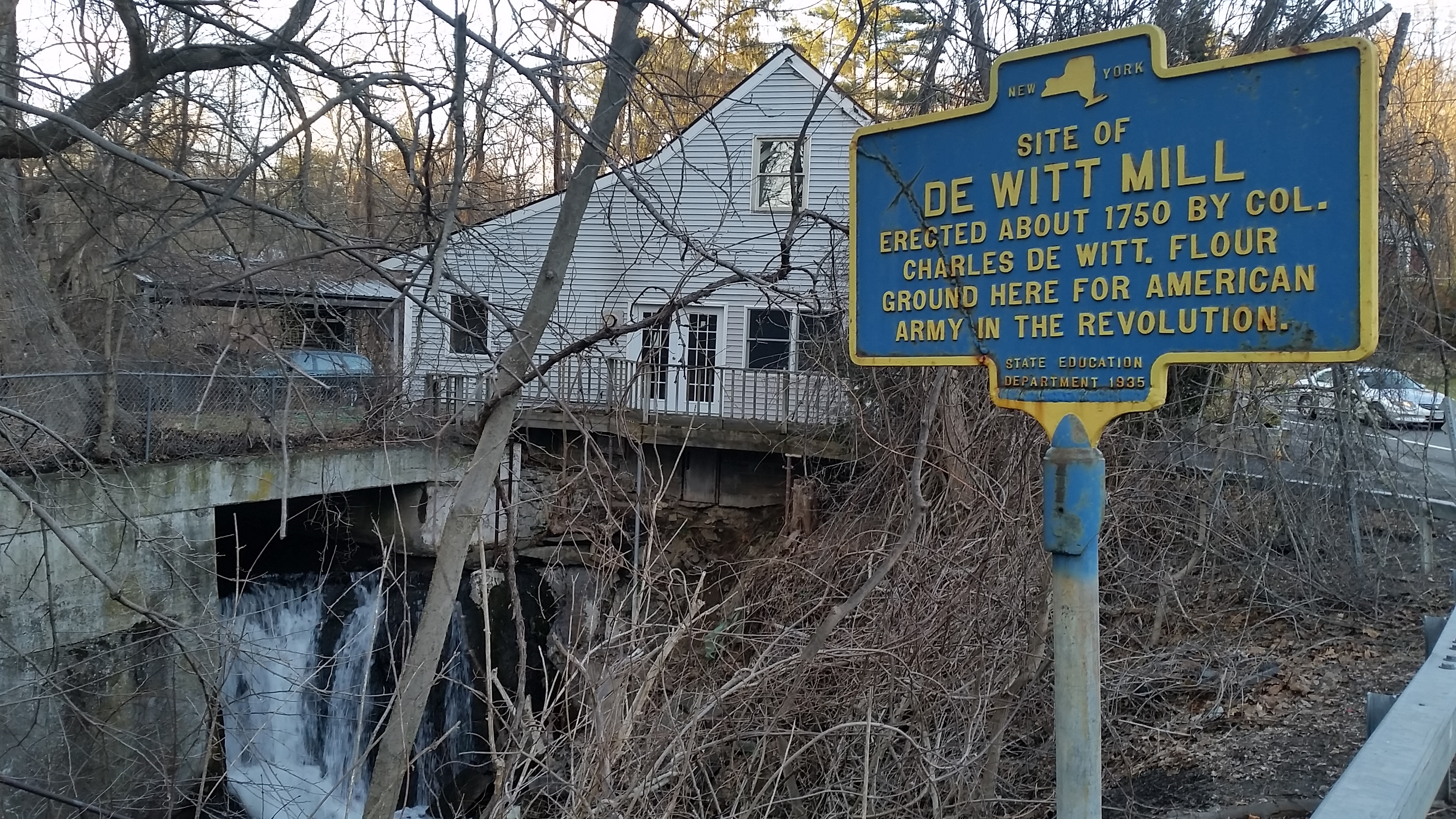 New York State historical marker (in Ulster County) for the the DeWitt Mill (operated by Charles DeWitt in Rosendale, NY.)